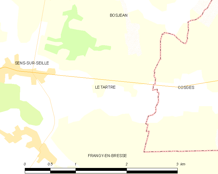 Map of French municipality